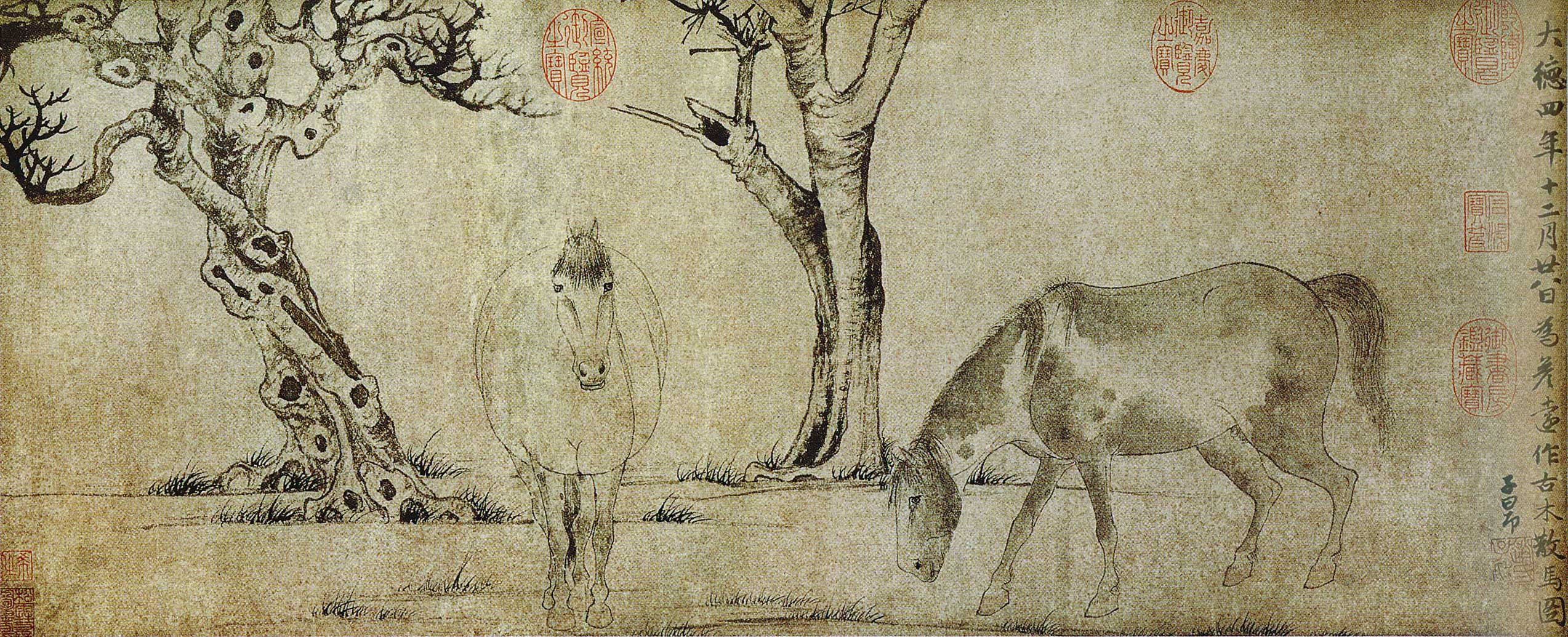 Old tree and horses (chinese: Gumu sanma tu), by Zhao Mengfu, China, Yuan dynasty, 1300. Ink on paper, height 29.9 cm, width 71.6 cm. National Palace Museum, Taibei, Inv. no. guhua 000923.